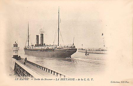 SS La Bretagne departing Le Havre